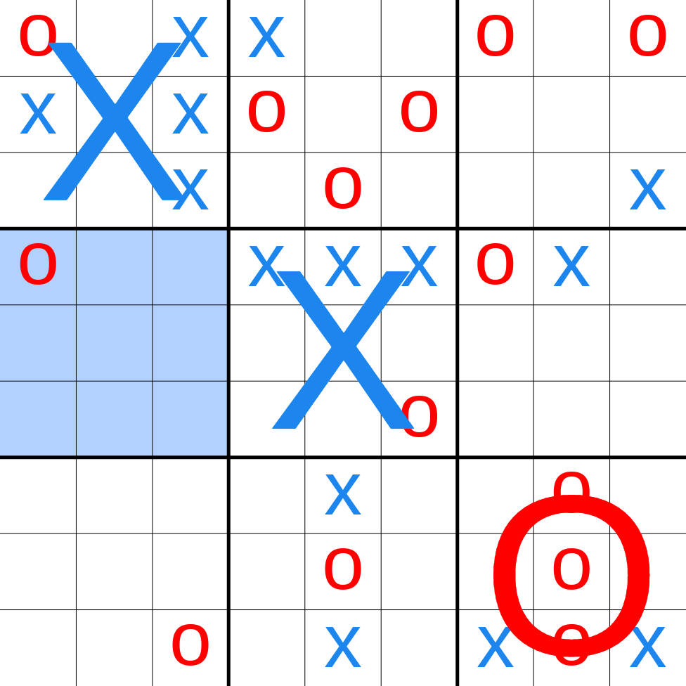 An incomplete board of Ultimate Tic Tac Toe.